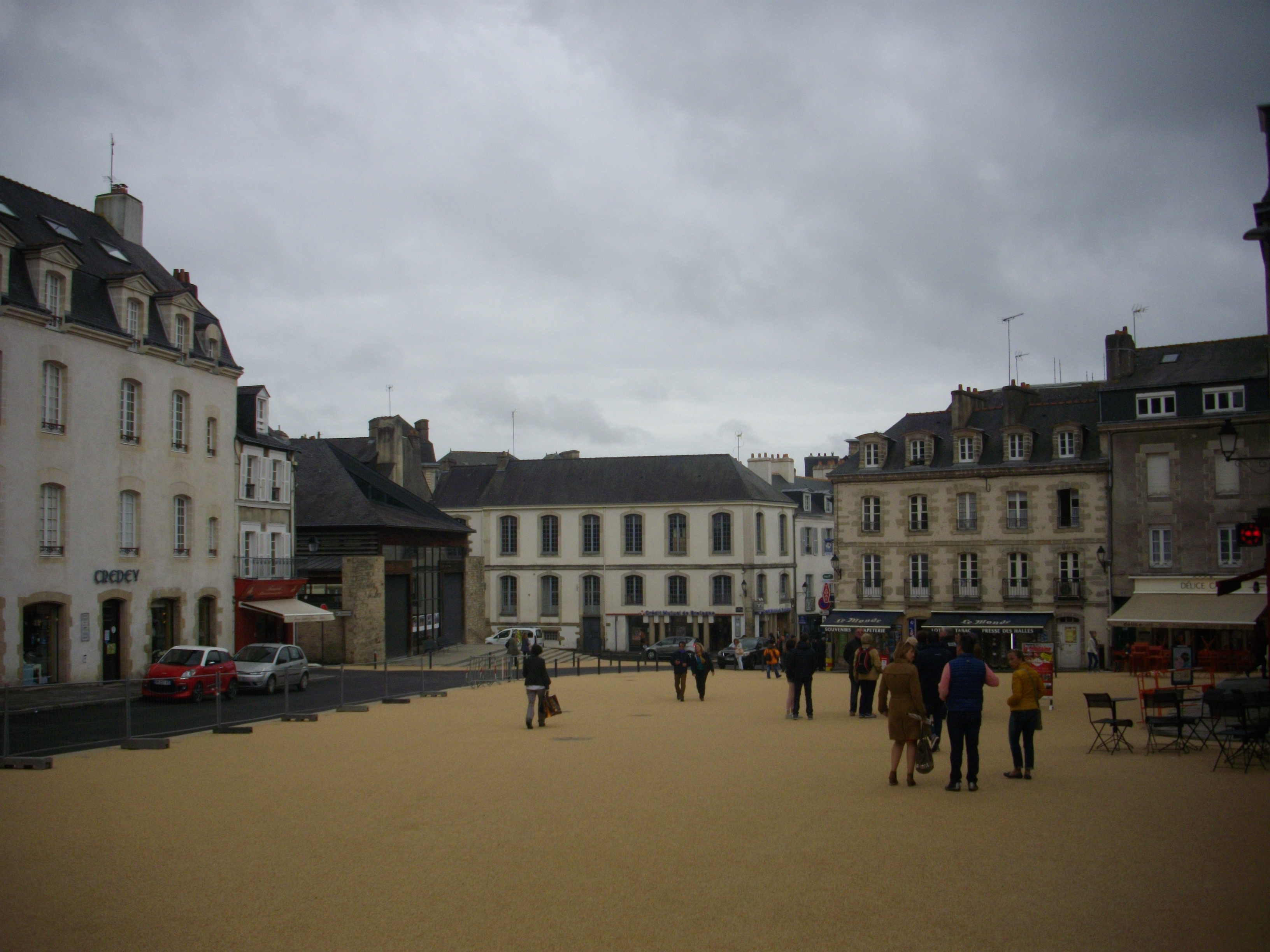 Tiltyards square of Vannes (Morbihan, France), after restructuring in 2017